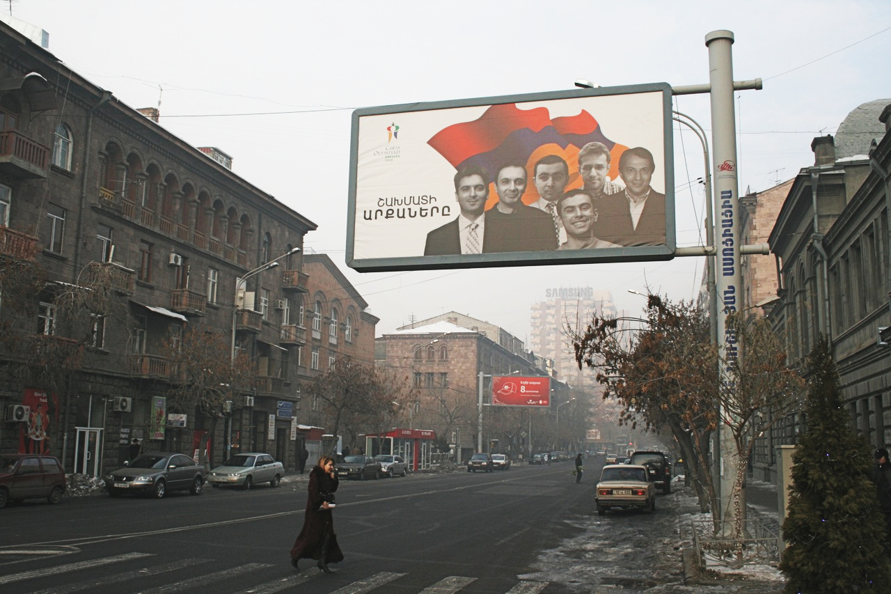 Amiryan street, Yerevan, with the stars of Armenian chess.